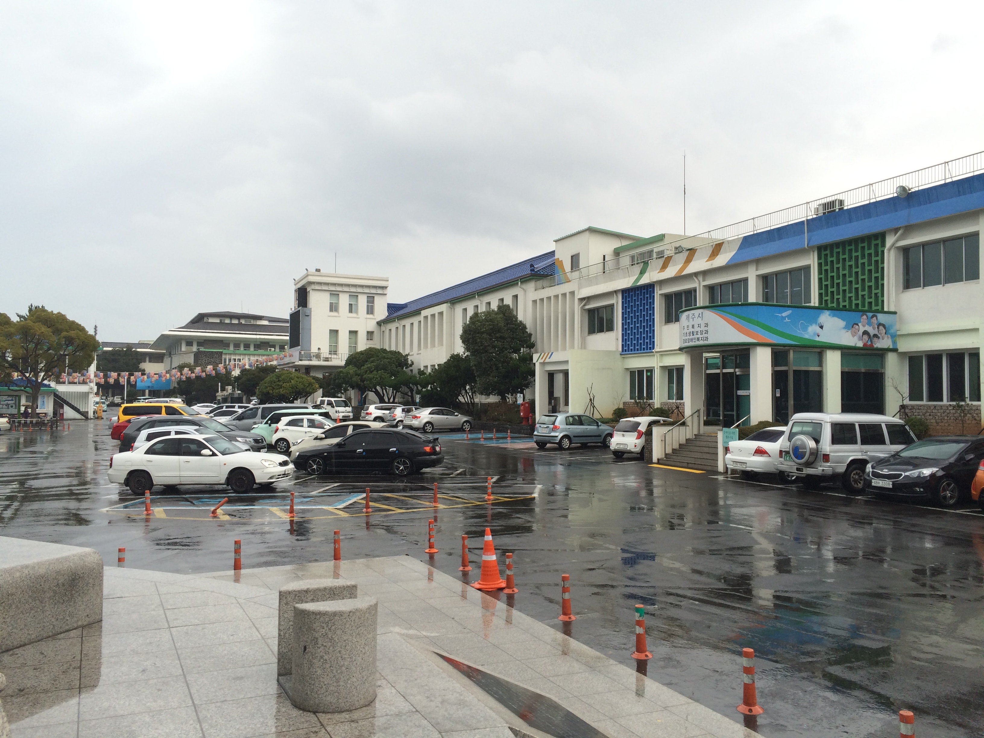 The city hall of Jeju-si at Jeju-do of Republic of Korea